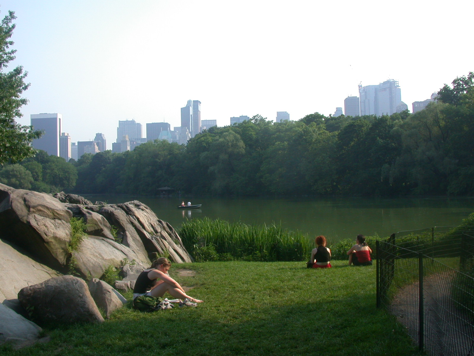 Central Park (New York City)